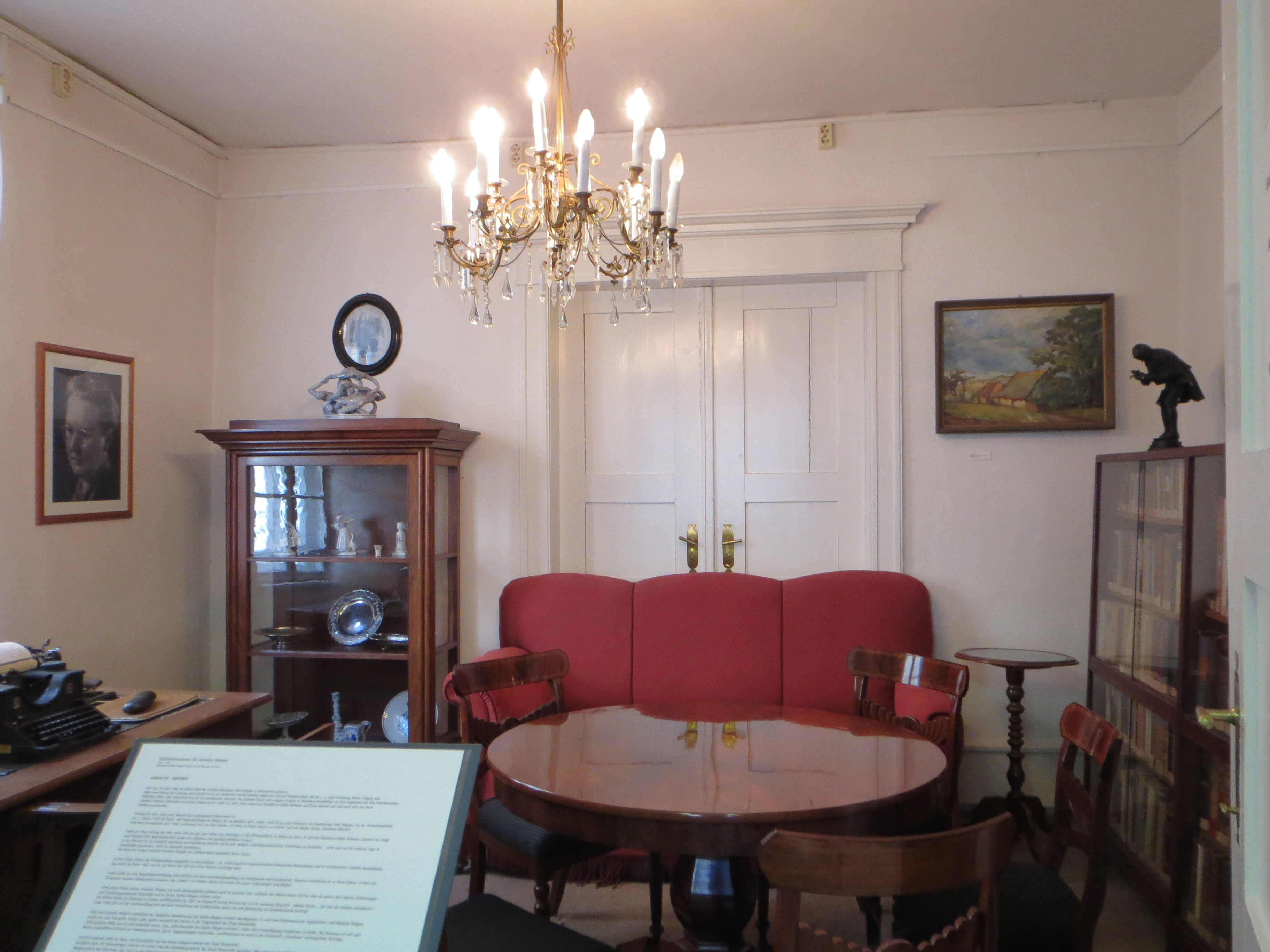 Annalise Wagner room Museum Neustrelitz